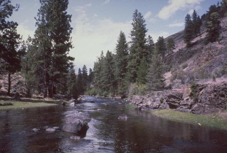 Malheur River flowing through a Bureau of Land Management wilderness study area in the Burns BLM District of eastern Oregon